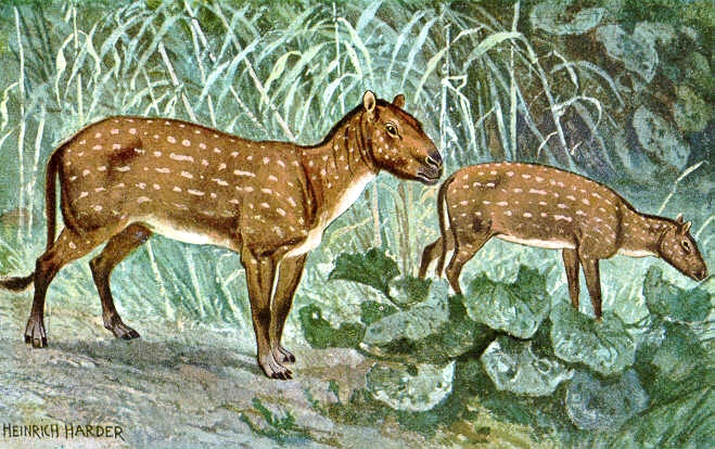 This reproduction of a painting of Eohippus was made to illustrate one card of a set of 30 collector cards from "Tiere der Urwelt" (Animals of the Prehistoric World). From the Series III. The picture was slightly edited (colors, contrast) by the uploader